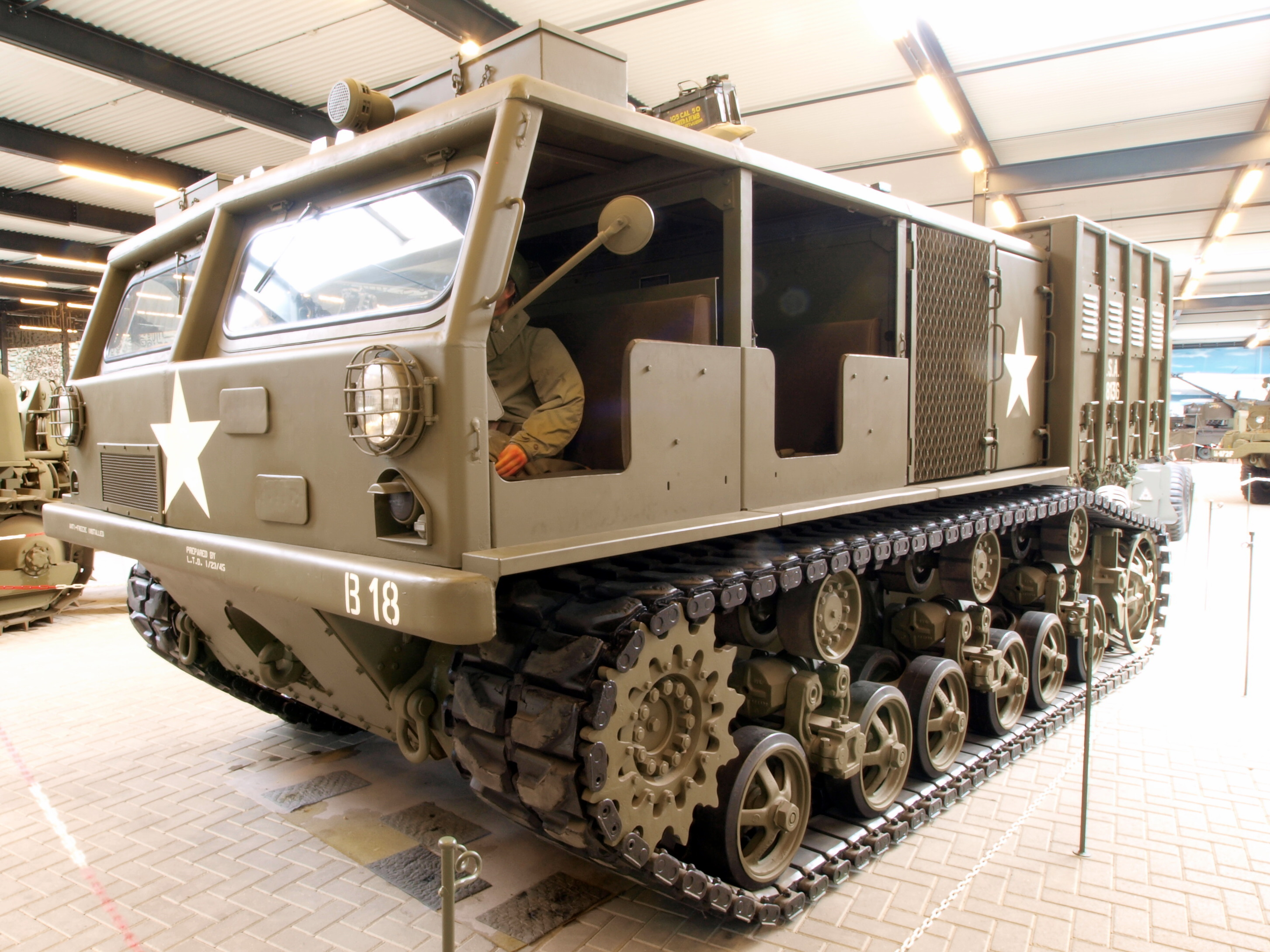 Photographed at the Marshallmuseum - Liberty Park - Oorlogsmuseum Overloon, The Netherlands. OLYMPUS DIGITAL CAMERA